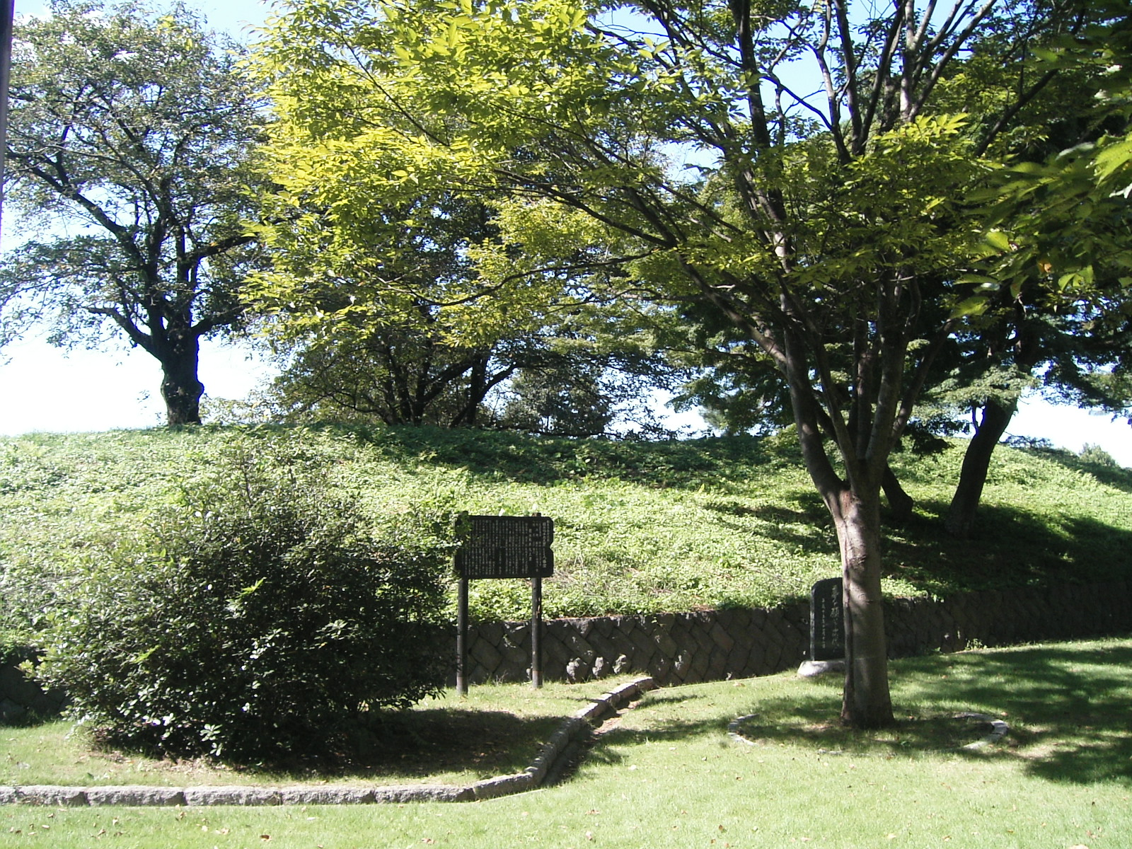 remains of Tatebayashi castle hon-maru